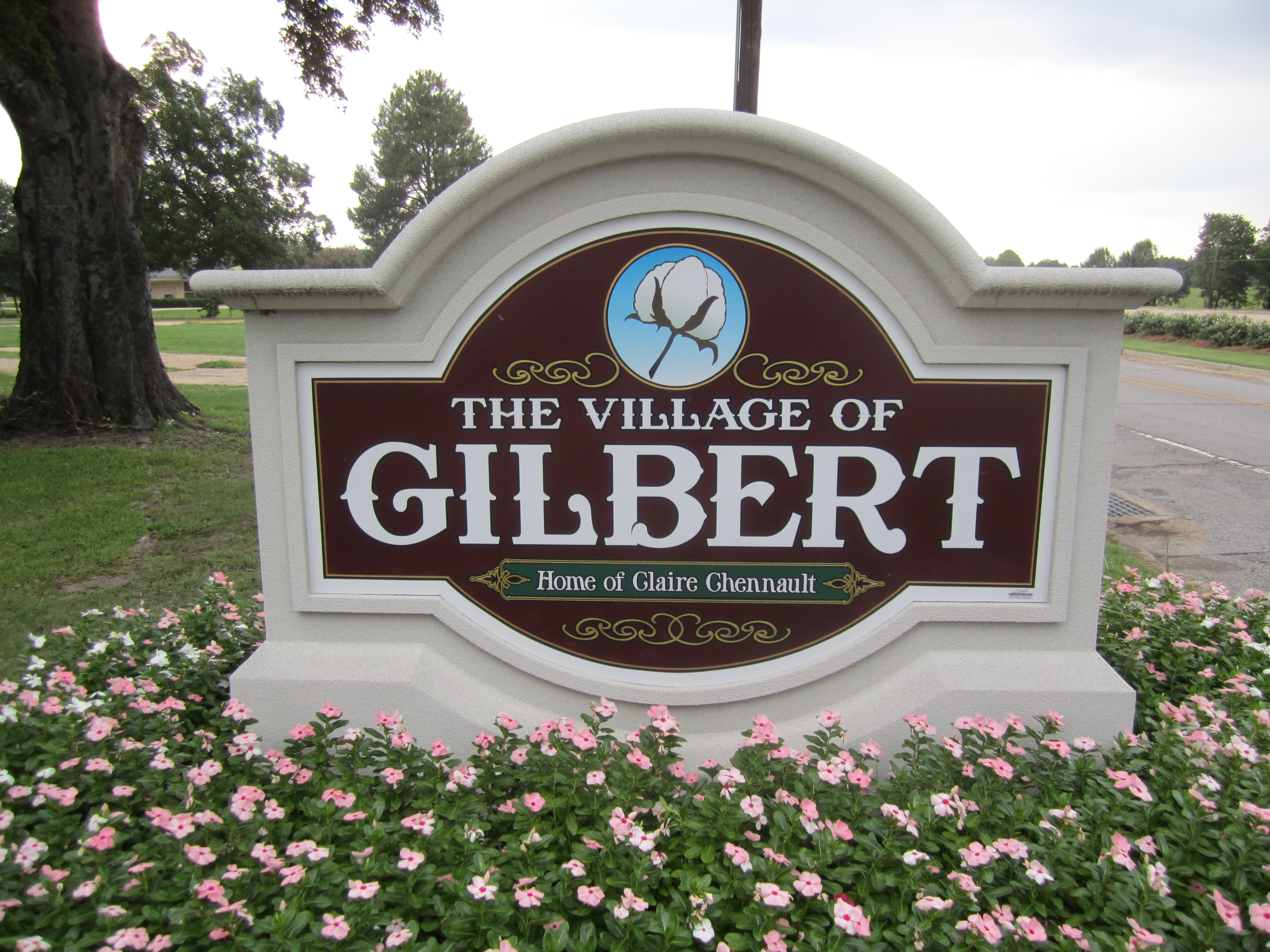 I took photo with Canon camera in Gilbert, LA.